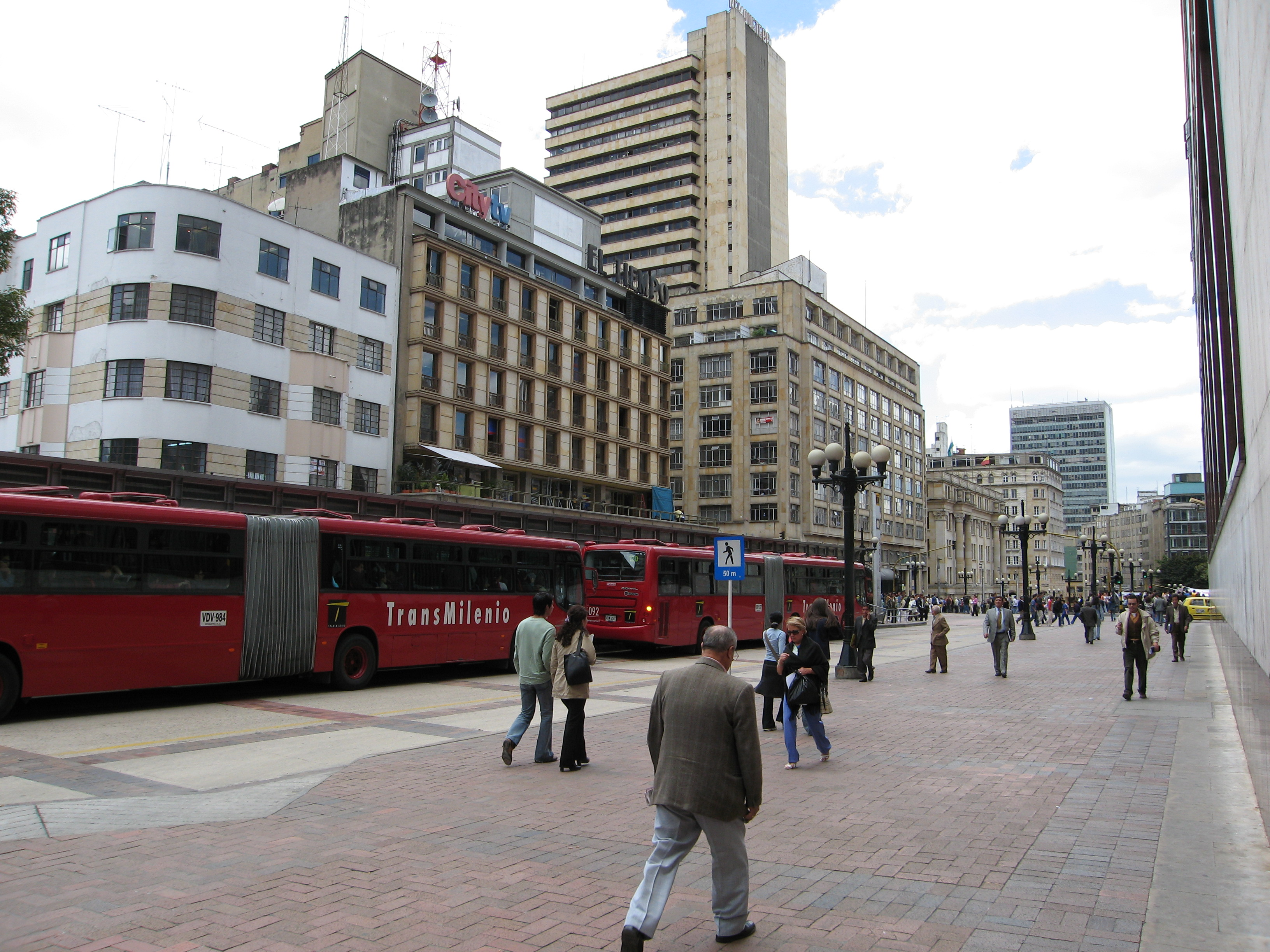 Transmilenio Station at Avenida Jimenez with Carrera Septima. (I, David van der Woude, the creator of this work, hereby grant the permission to copy, distribute and/or modify this document under the terms of the GNU Free Documentation License, Version 1.2 or any later version published by the Free Software Foundation; with no Invariant Sections, no Front-Cover Texts, and no Back-Cover Texts.) Subject to disclaimers.